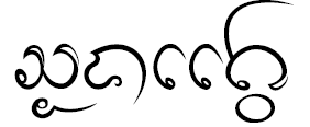 Lanna script – Song Khwae is a district (Amphoe) in the northwestern part of Nan Province, northern Thailand.